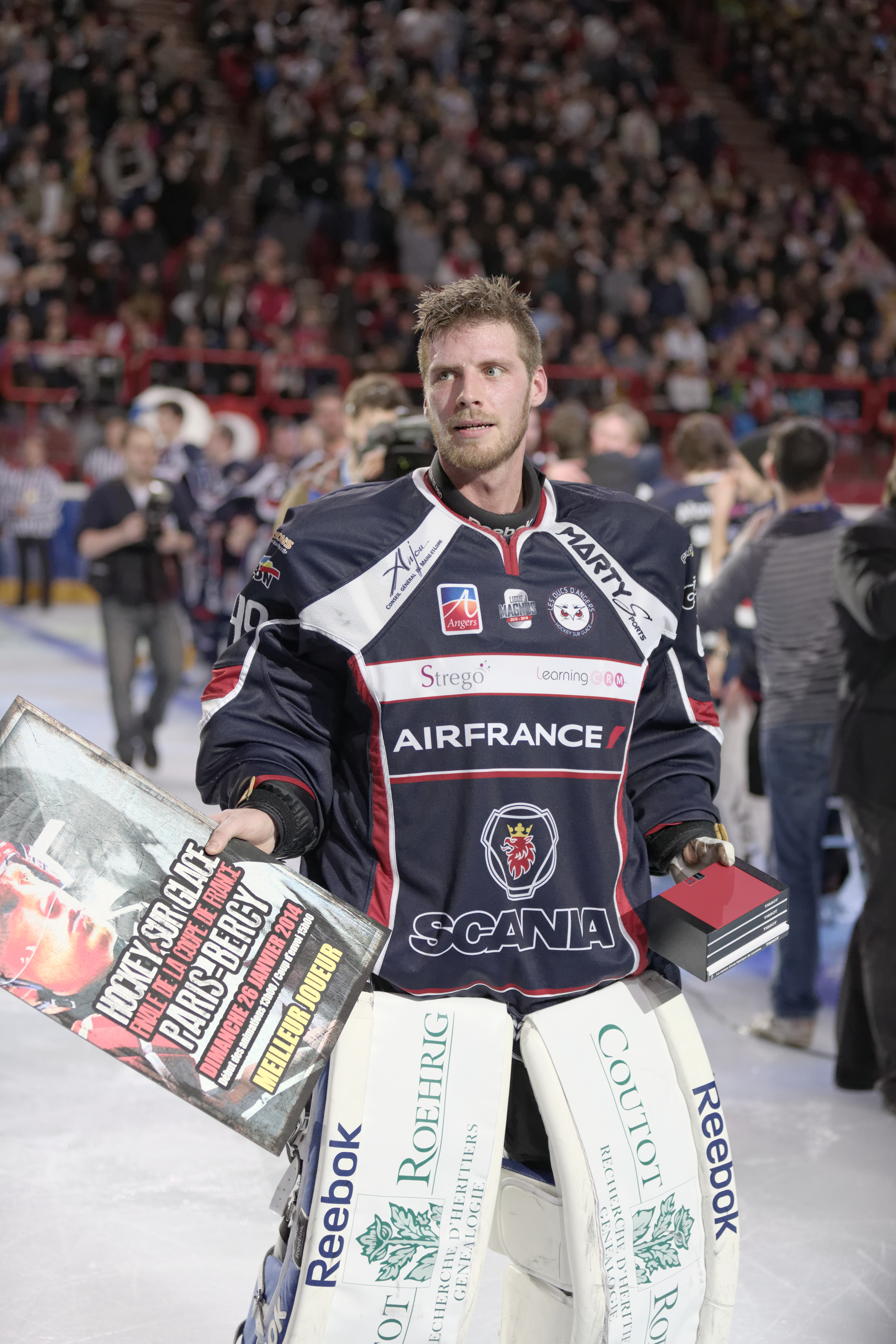 Final of the Ice Hockey French Cup 2014.